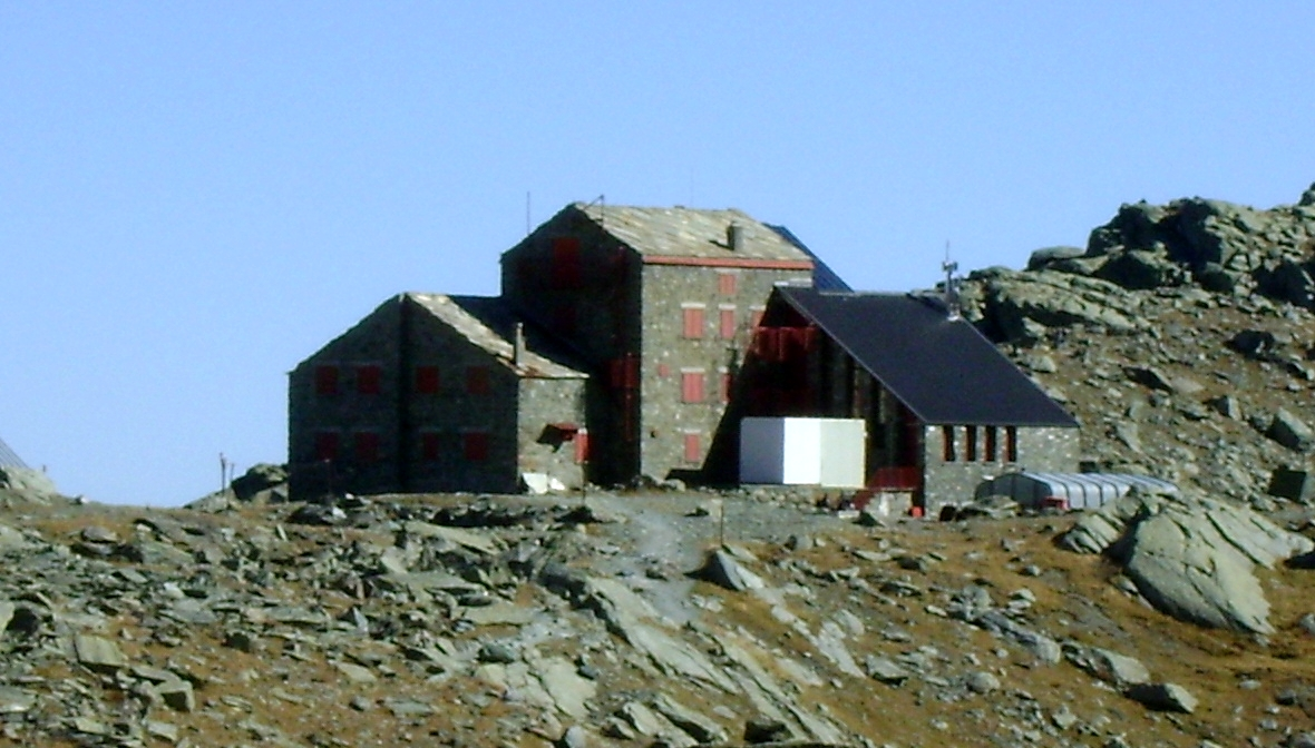 View of the Rifugio Quintino Sella al Monviso (alpine hut "Quintino Sella") (Italy)